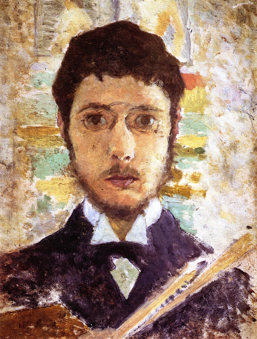 Painting by Pierre Bonnard